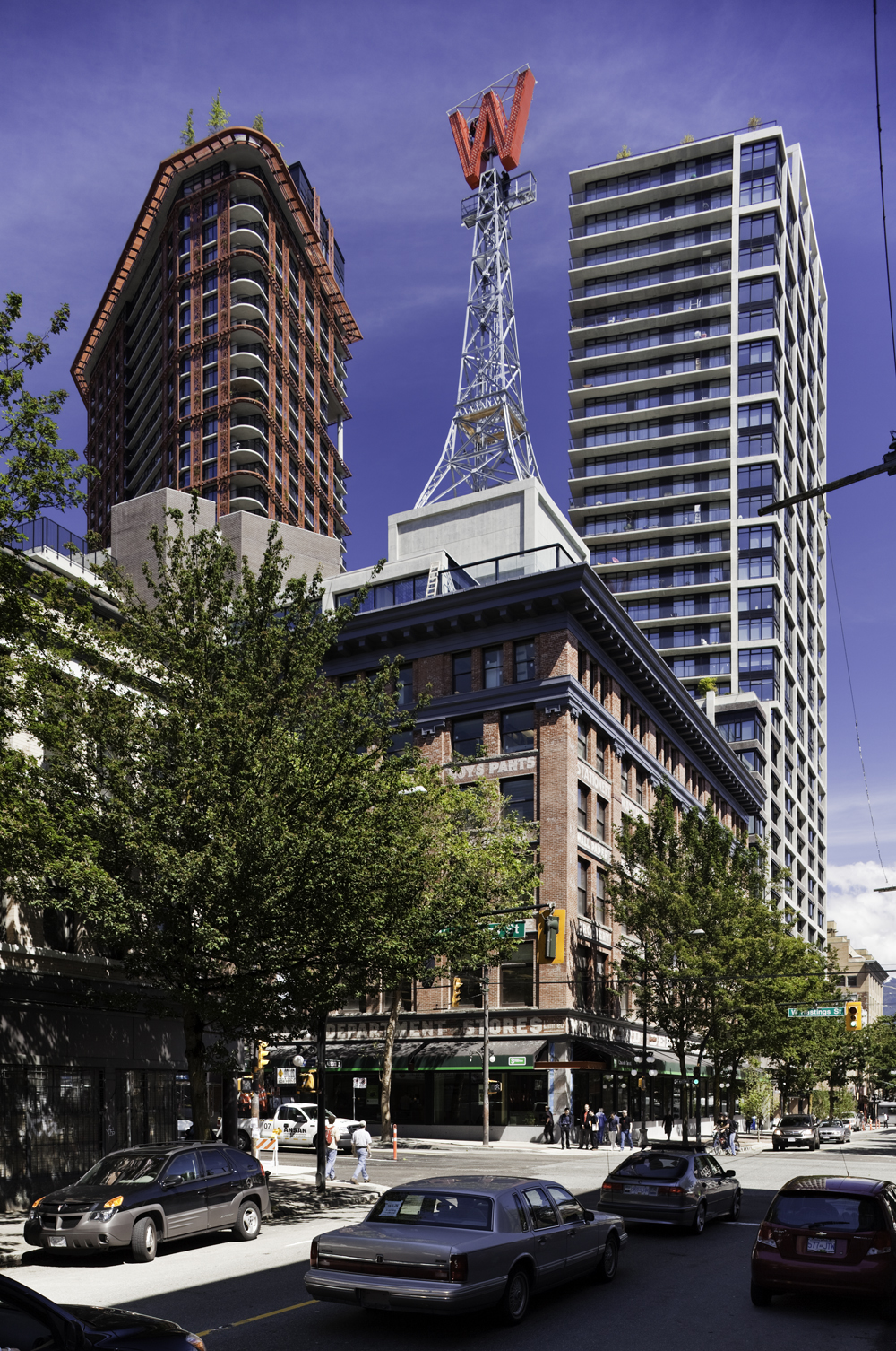 Former Woodward's store in Vancouver, Canada, has been repurposed as condominiums